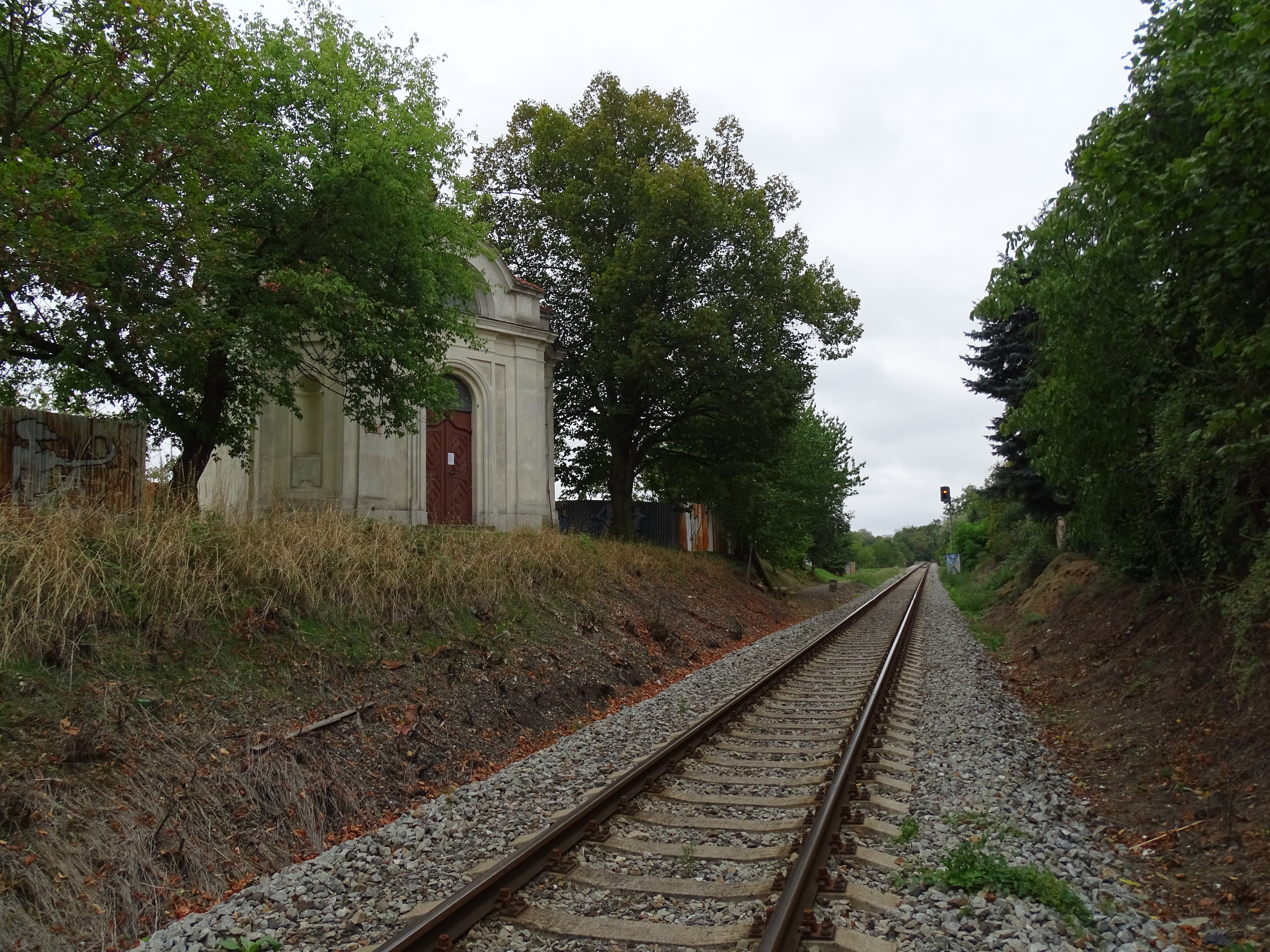 Prague-Stodůlky, Czech Republic. Railway line 122 near the chapel of the Finding of the True Cross.